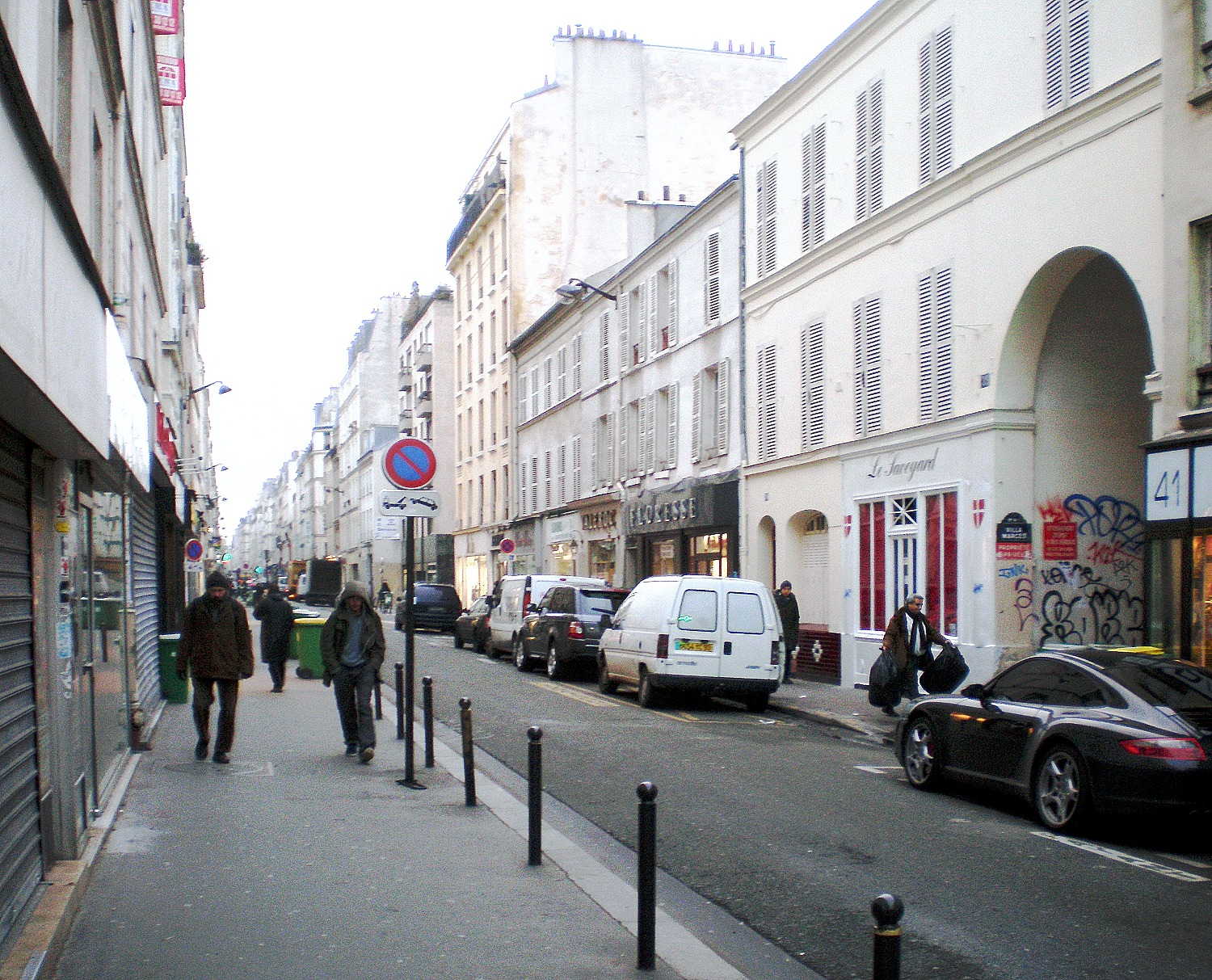 Popincourt street - Paris